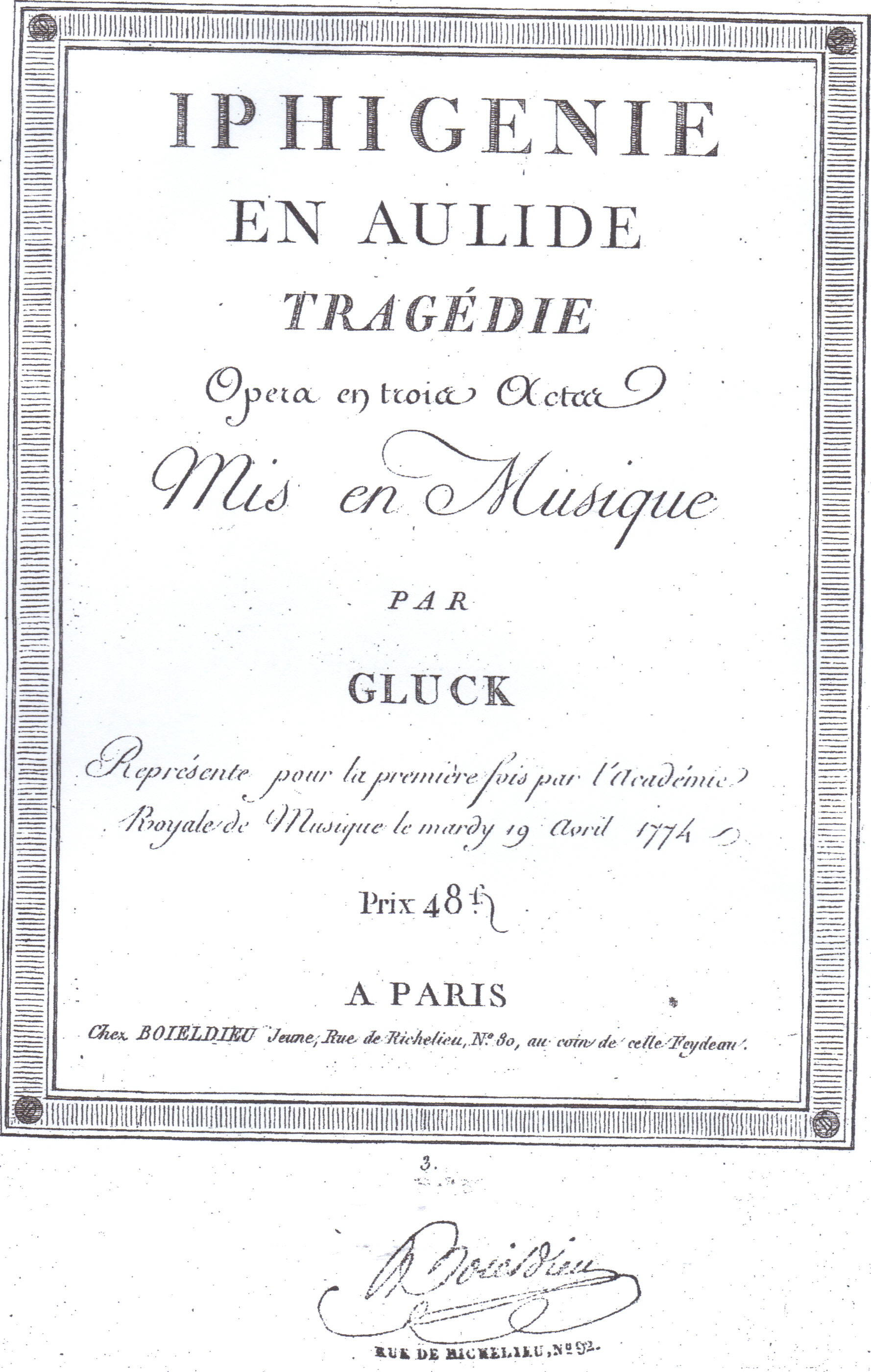 Title page of an old printed edition of the score of Gluck's Iphigénie en Aulide